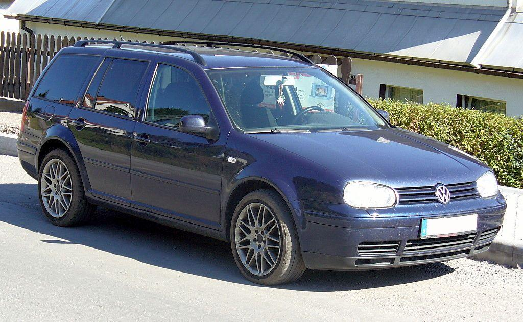 VW Golf IV Variant